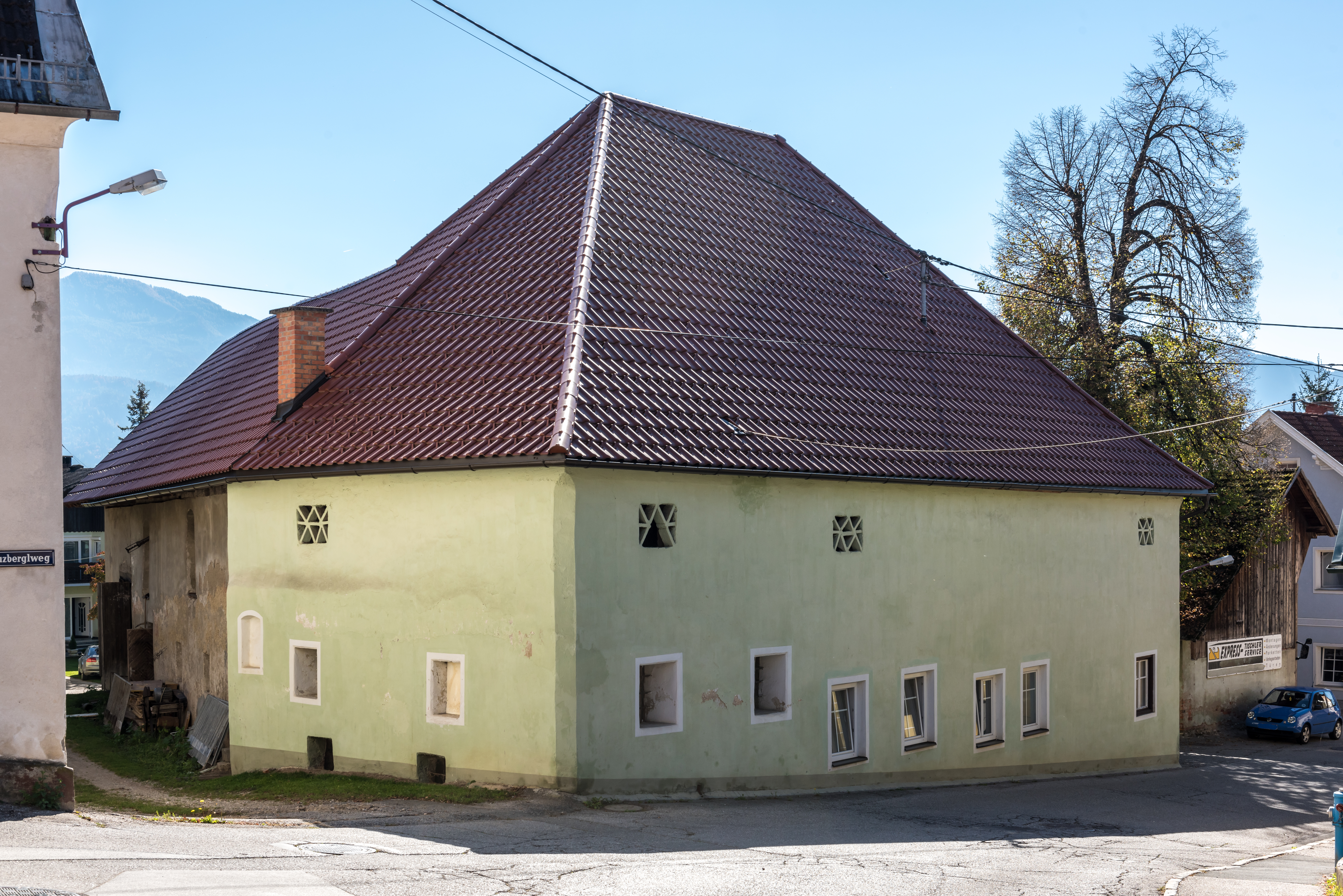 Northern view of the Rohrmeister house on Kreuzberglweg #14, market town Eberndorf, district Völkermarkt, Carinthia, Austria, European Union